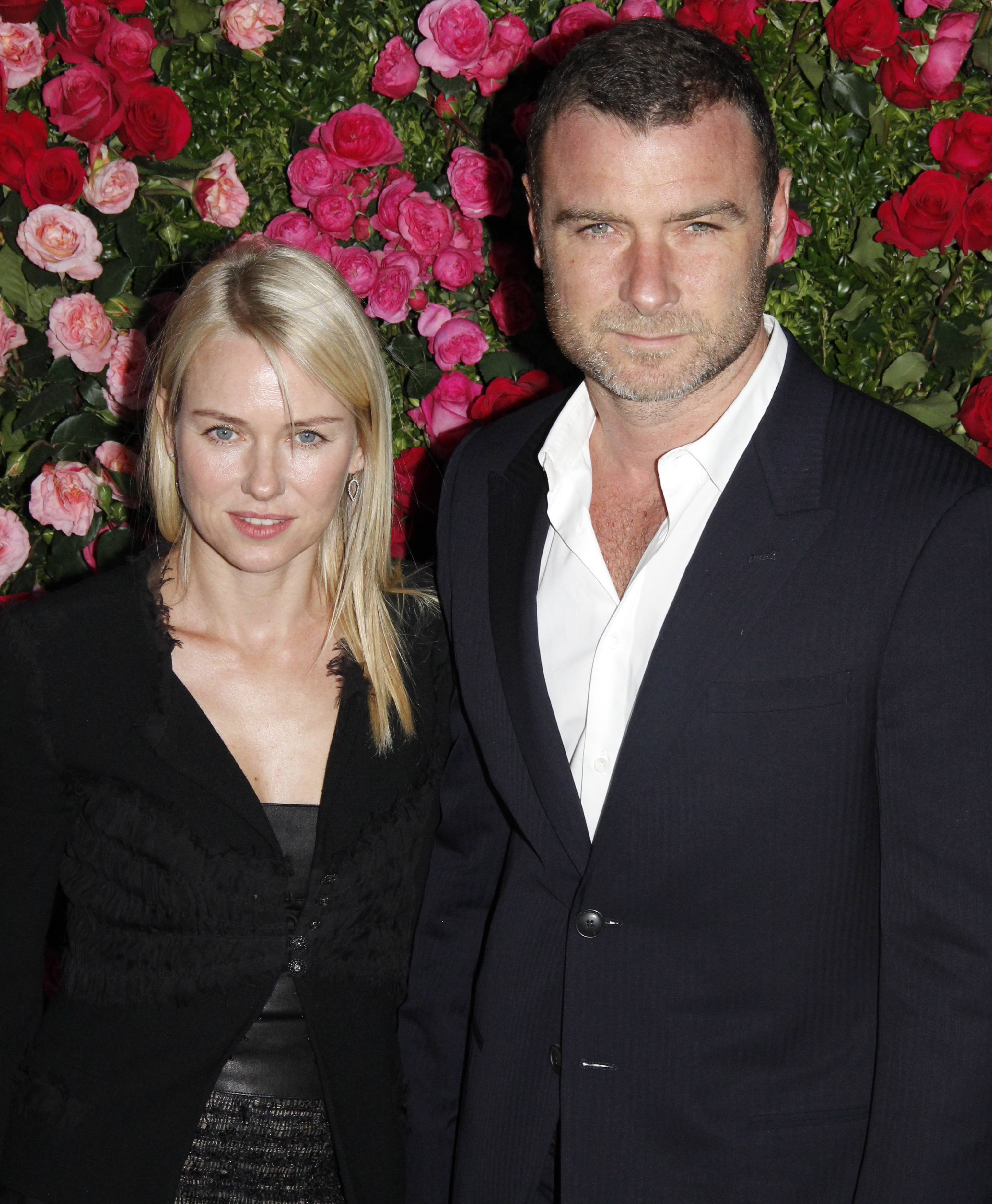 Naomi Watts & Liev Schreiber at the 7th Annual Chanel Tribeca Film Festival Artists Dinner 2012.